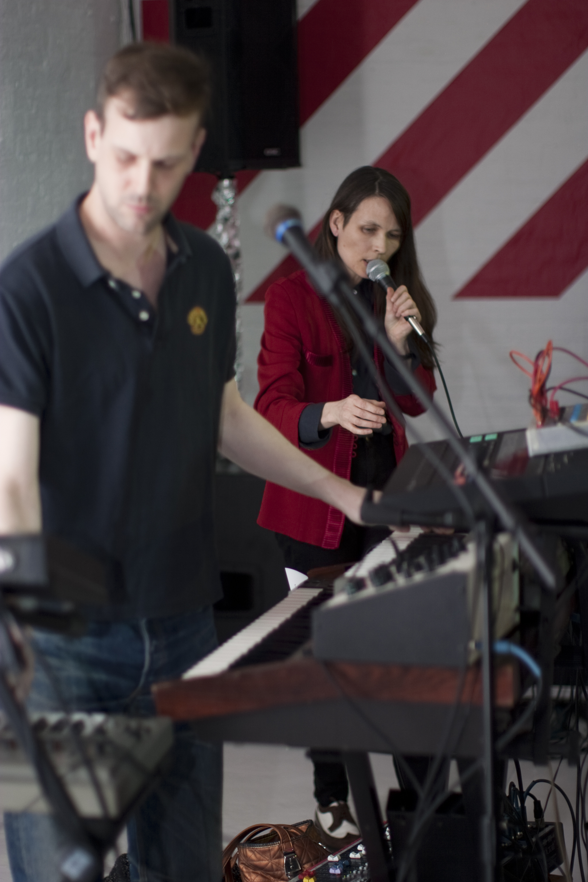 Electronic music group Xeno & Oaklander performing in 2011